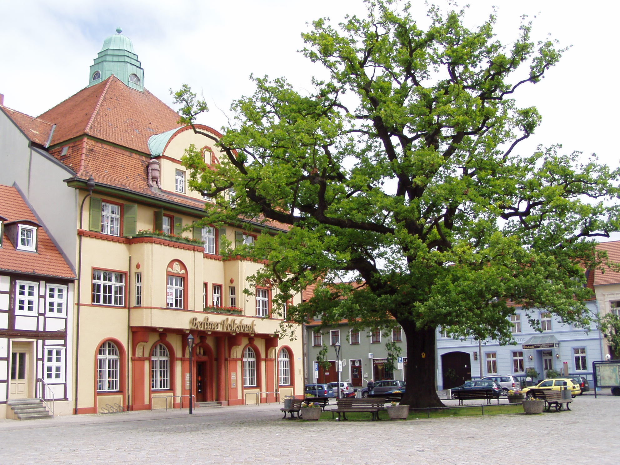 Peace Oak tree in Kyritz. The tree is a symbol for the end of the napoleonic era.